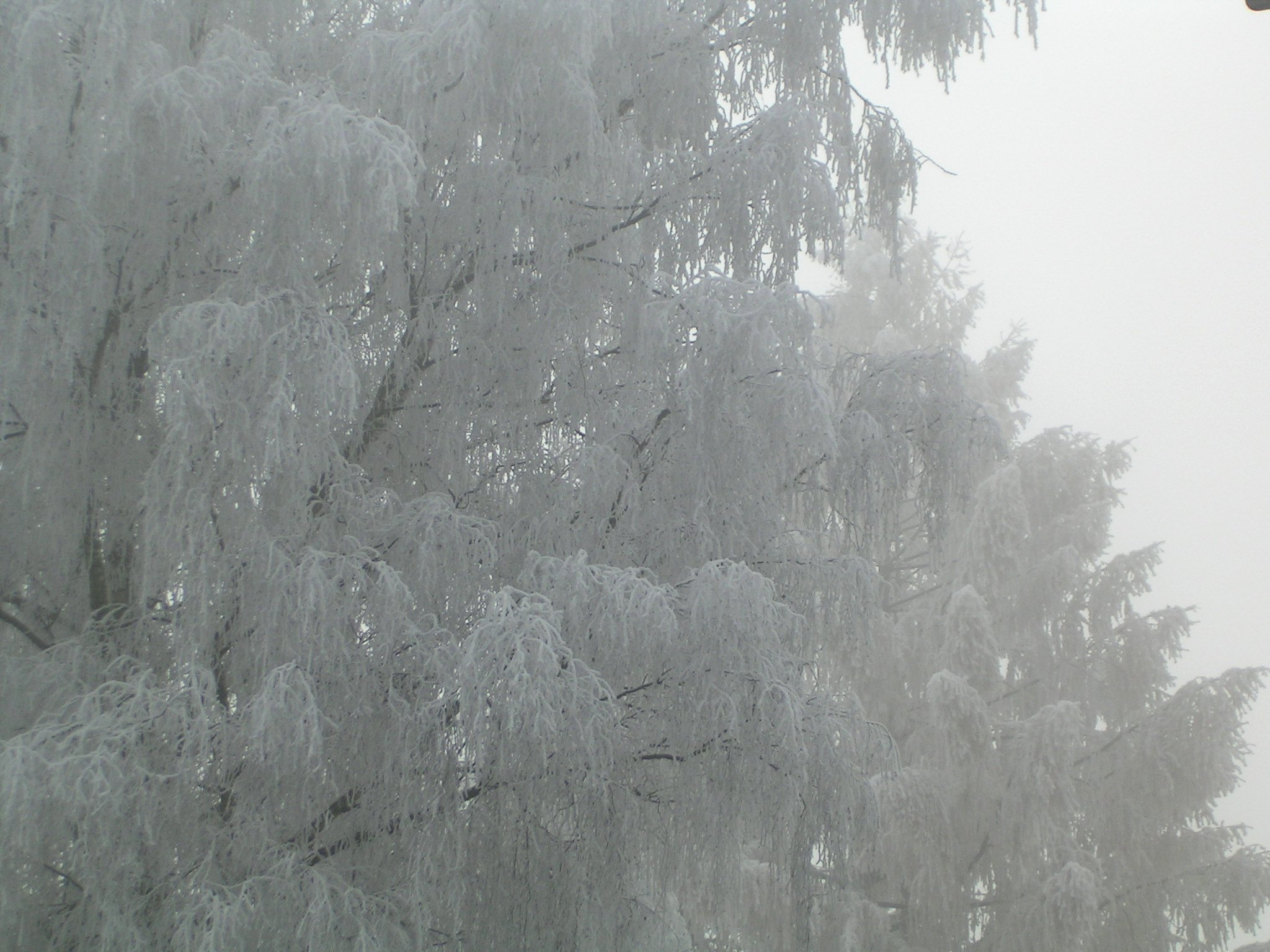 Rime on a birch after foggy weather